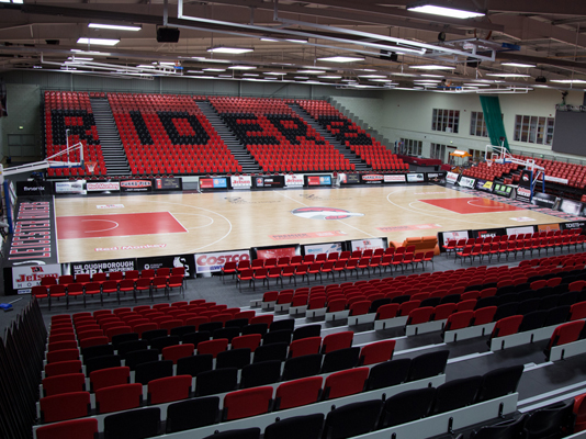 The interior of Leicester Community Sports Arena, home of Leicester Riders basketball